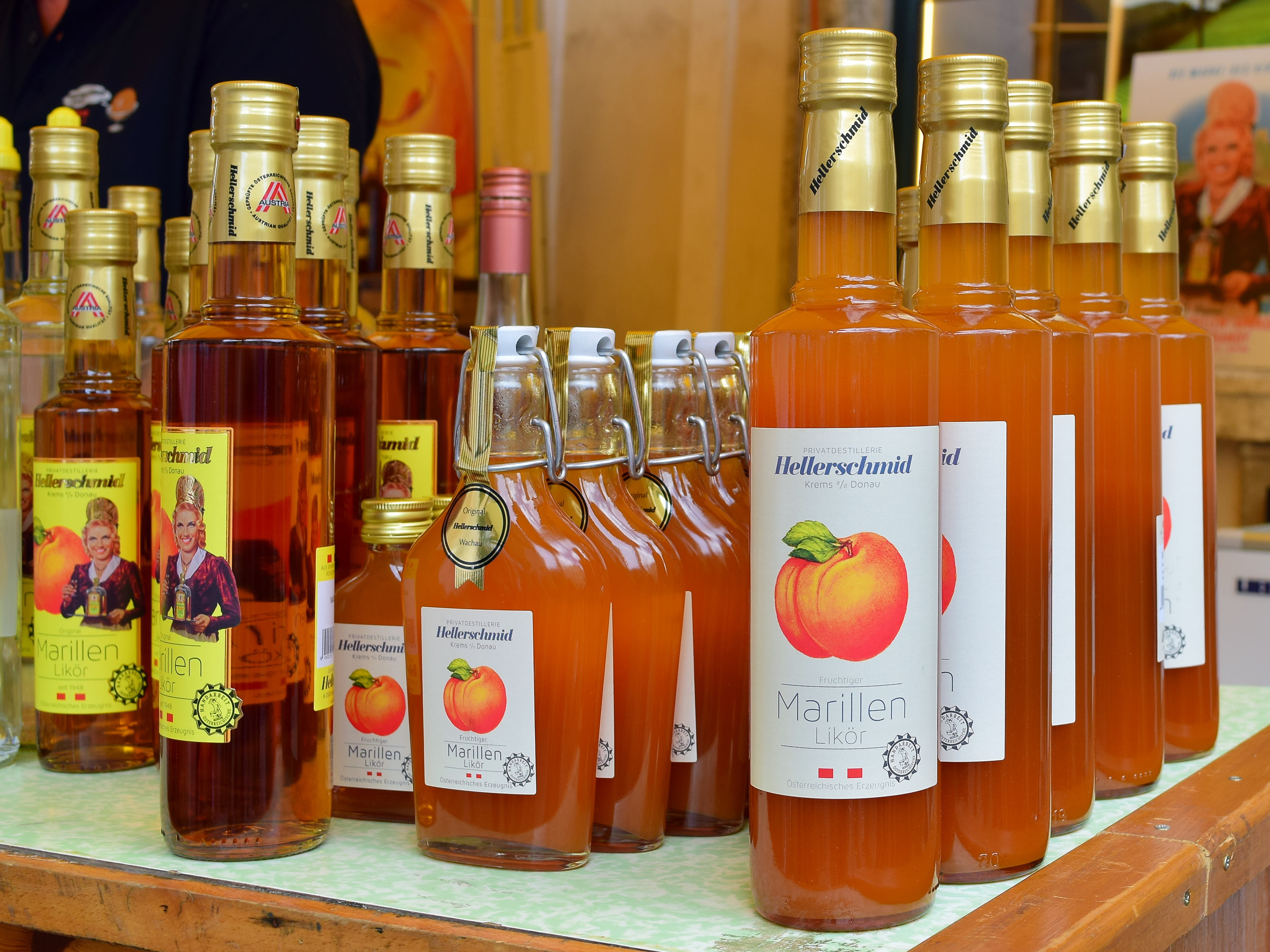 Apricot liqueurs in Krems an der Donau.